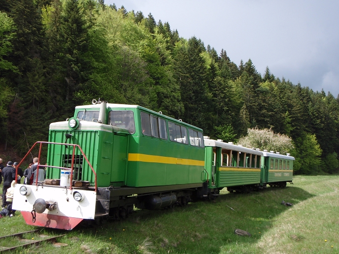 Capathian tramvai near Mizun